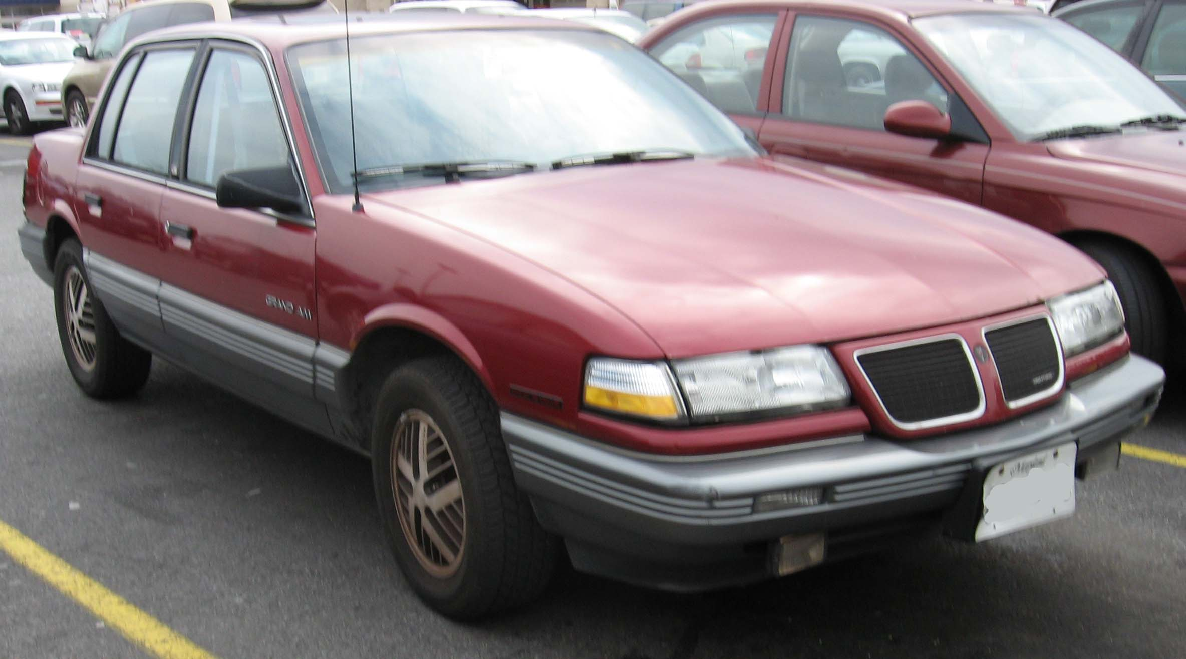 1989-1991 Pontiac Grand Am photographed in USA.